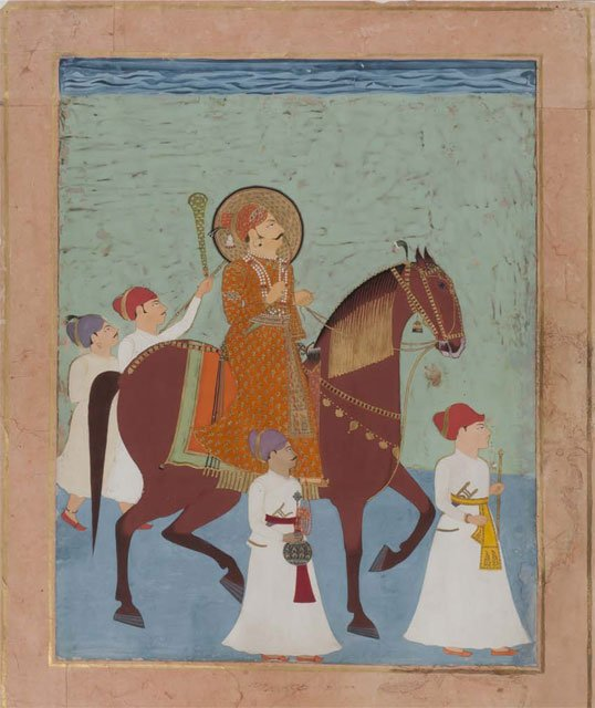 Ceremonial Horseback Portrait of Prince Lakhpatji of Kutch with Four Attendants. Kutch or Nagaur, c.1750. Opaque watercolor heightened with gold on paper. Image 12.5 x 9.5 in (31.8 x 24.1 cm)